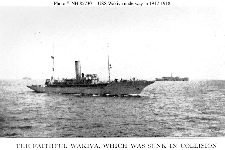 United States Navy patrol vessel USS Wakiva II (SP-160) on convoy duty in 1917-1918